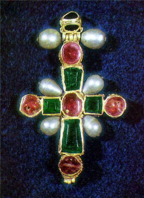 XII century cross of Queen Tamara of Georgia, composed of Gold, rubies, emerald and pearls. Stored at the Georgian National Museum.